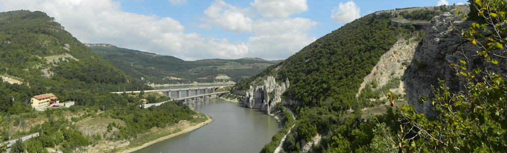 River Luda Kamchia near the village Dobromir.